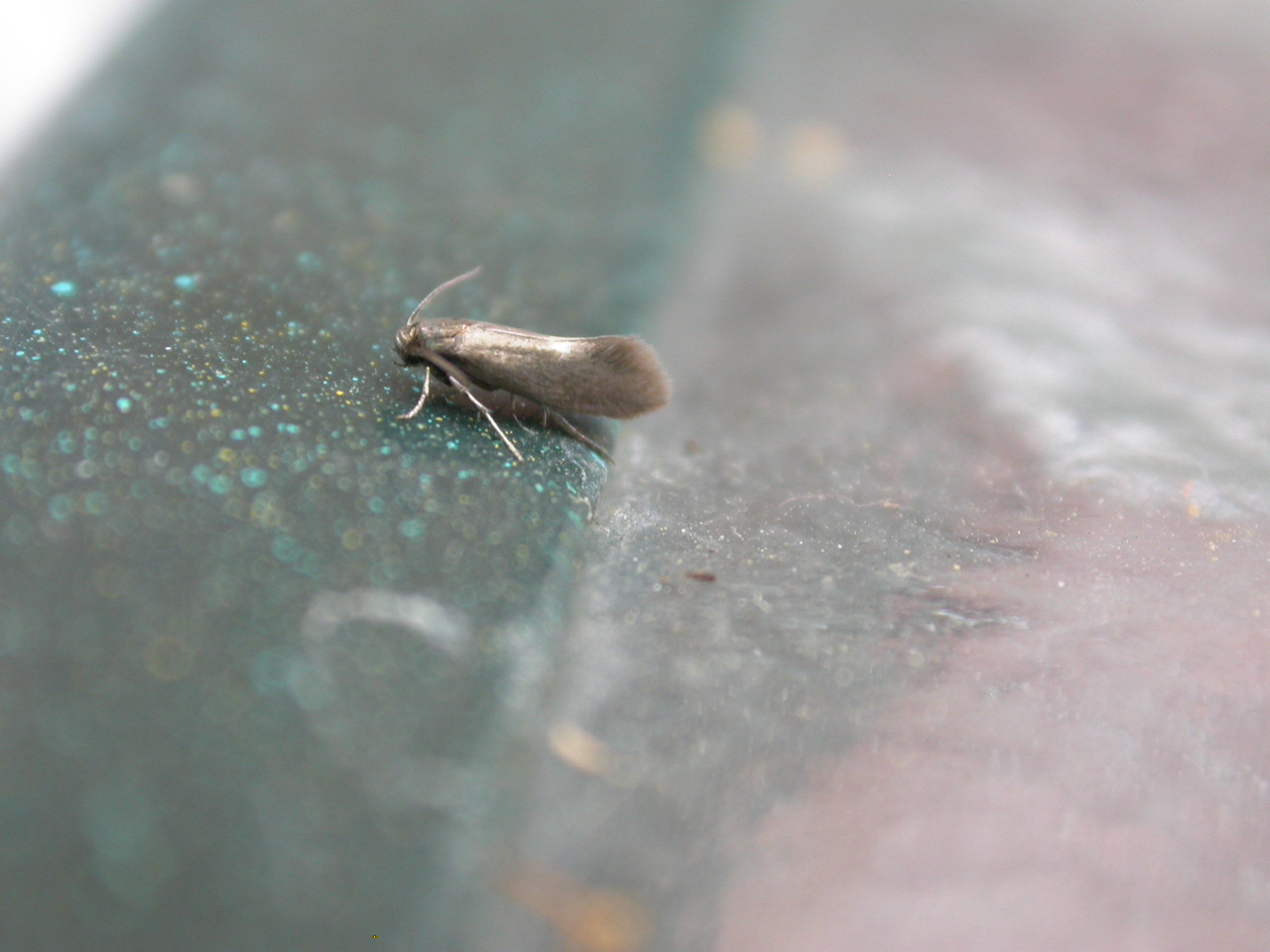 Heliozela sp., Charlottenlund, Denmark